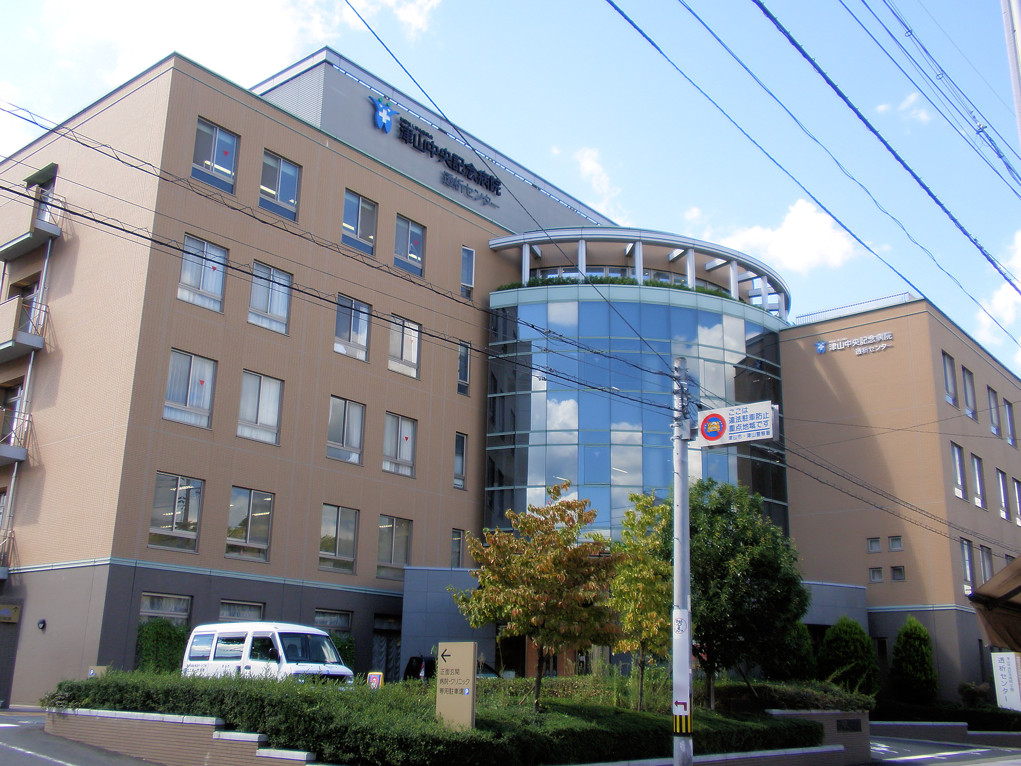 Tsuyama Central Memorial Hospital (Tsuyama Chūō Kinen Hospital), Tsuyama, Okayama.